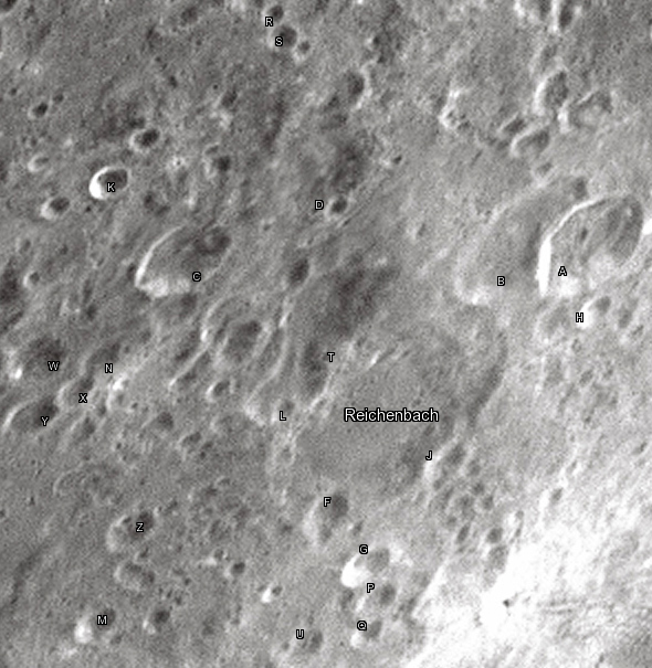 Reichenbach lunar crater as seen from Earth with satellite craters labeled